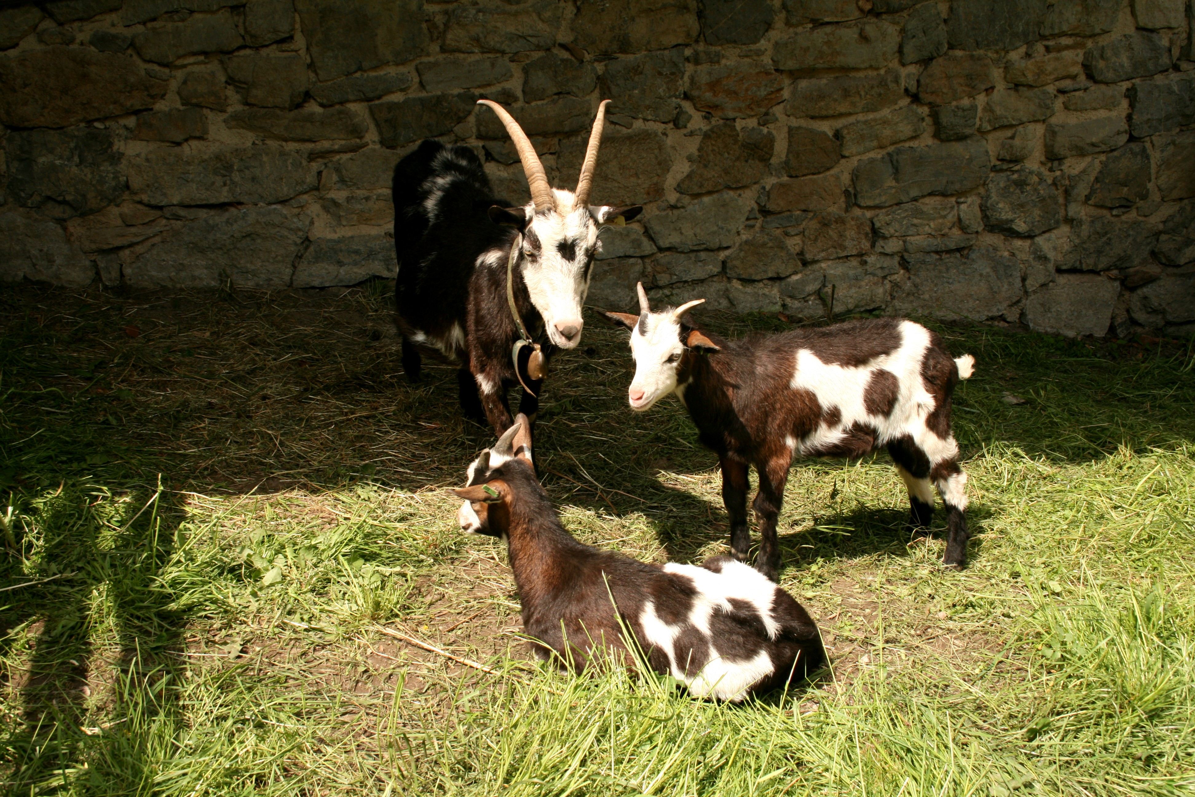 "Tauernschecke" in Styria, Austria, Europe